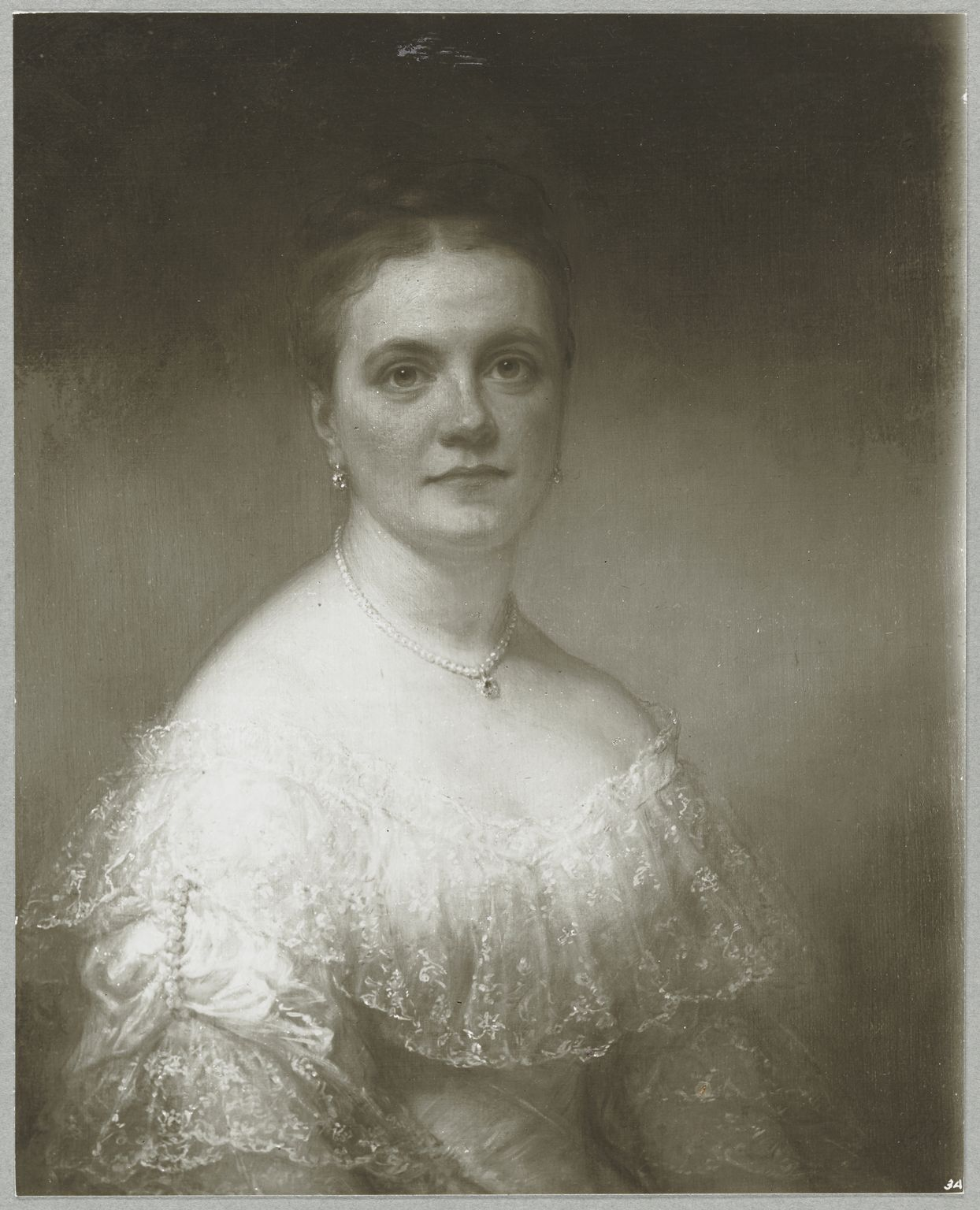 Title:Julia Livingston Delafield. Author/Artist:Huntington, Daniel, 1816-1906 Creation Date:1873 Description:Graphic reproduction(s) with documentation of a painting. 30 x 25 in. oil on canvas.